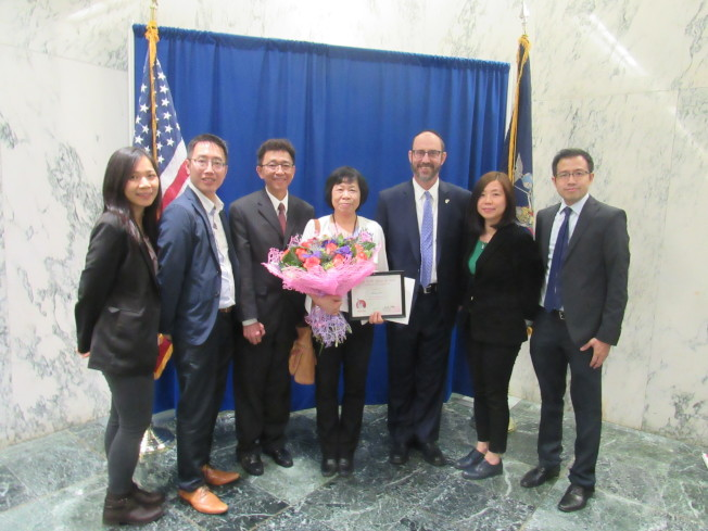 何錦璇(中)接受參議員費德樂(右三)頒發「2017年傑出女性」。